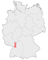 Course Map of Bertha Benz Memorial Route.